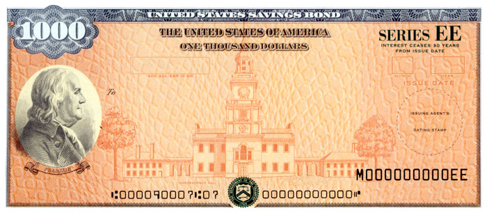 $1,000 Series EE Savings Bond featuring Benjamin Franklin, 1990